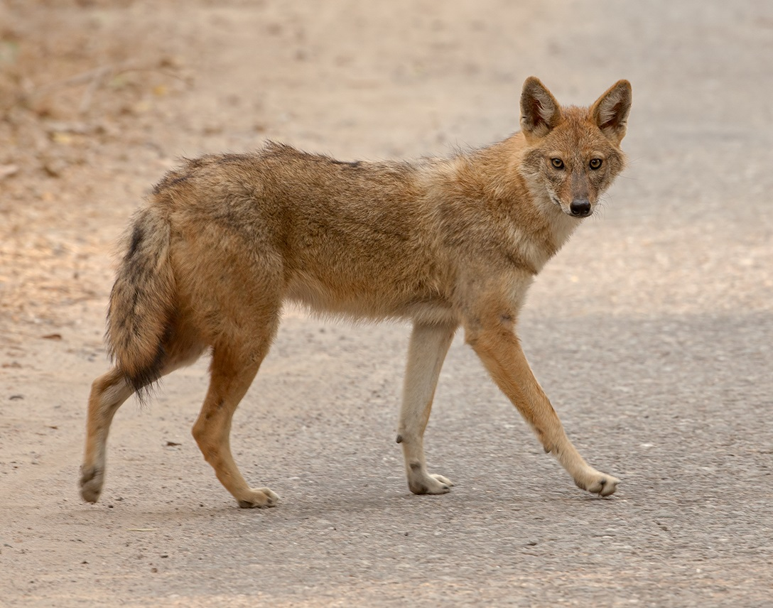 @ Keoladeo National Park